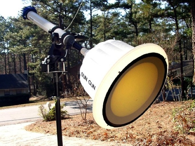 Picture of Sun Gun Telescope